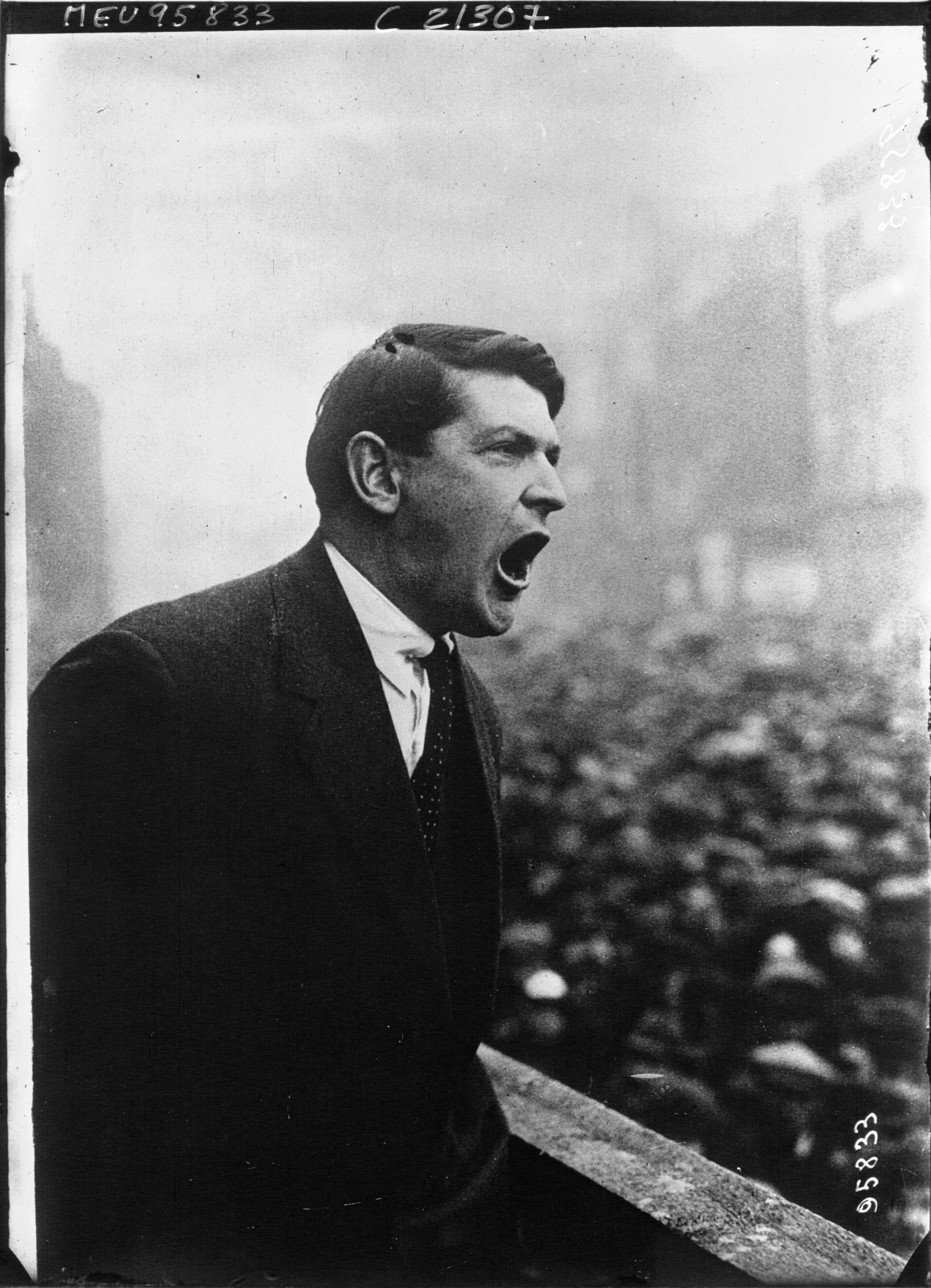 Irish revolutionary leader Michael Collins (1890-1922) working the crowd in Dublin in 1922.